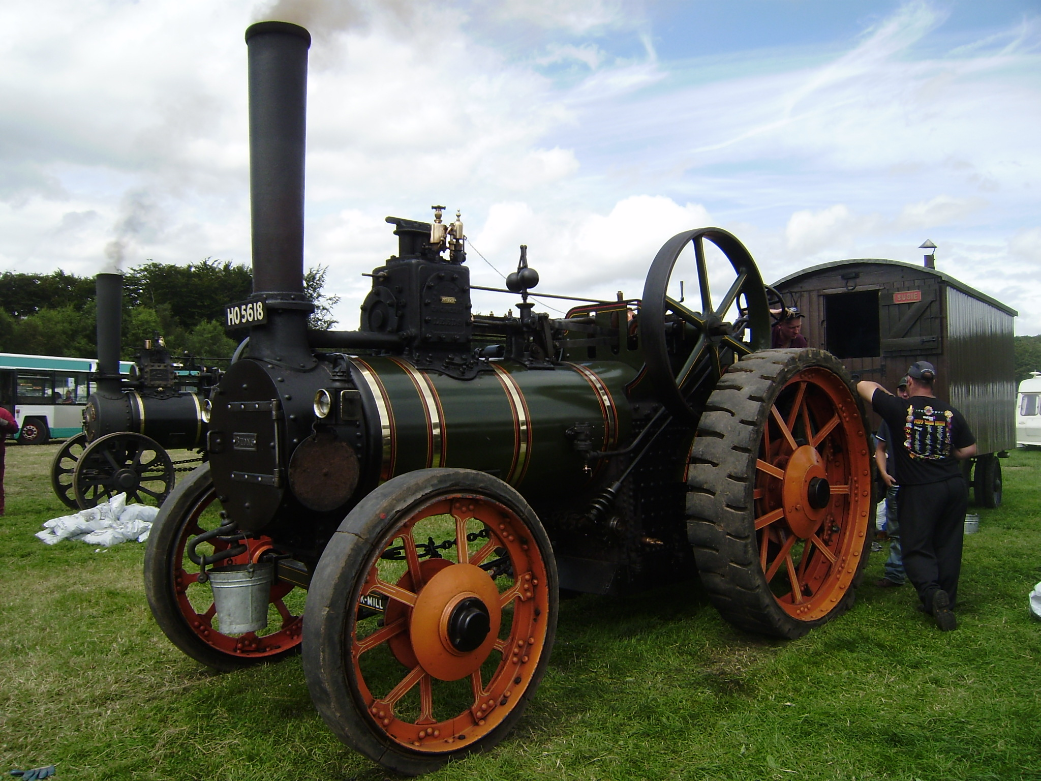 McLaren of Leeds traction engine No.127 of 1882 at Cromford steam fair 2008